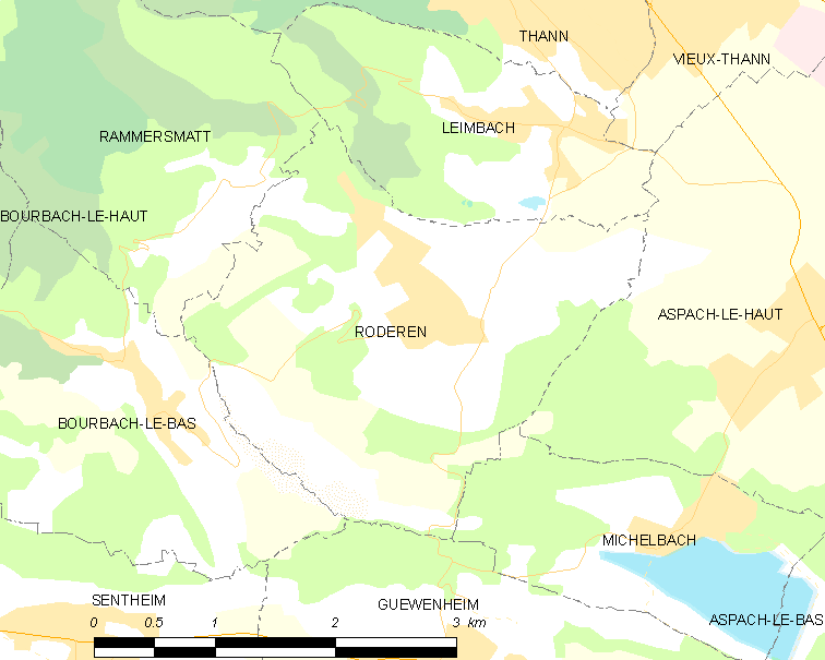 Map of French municipality